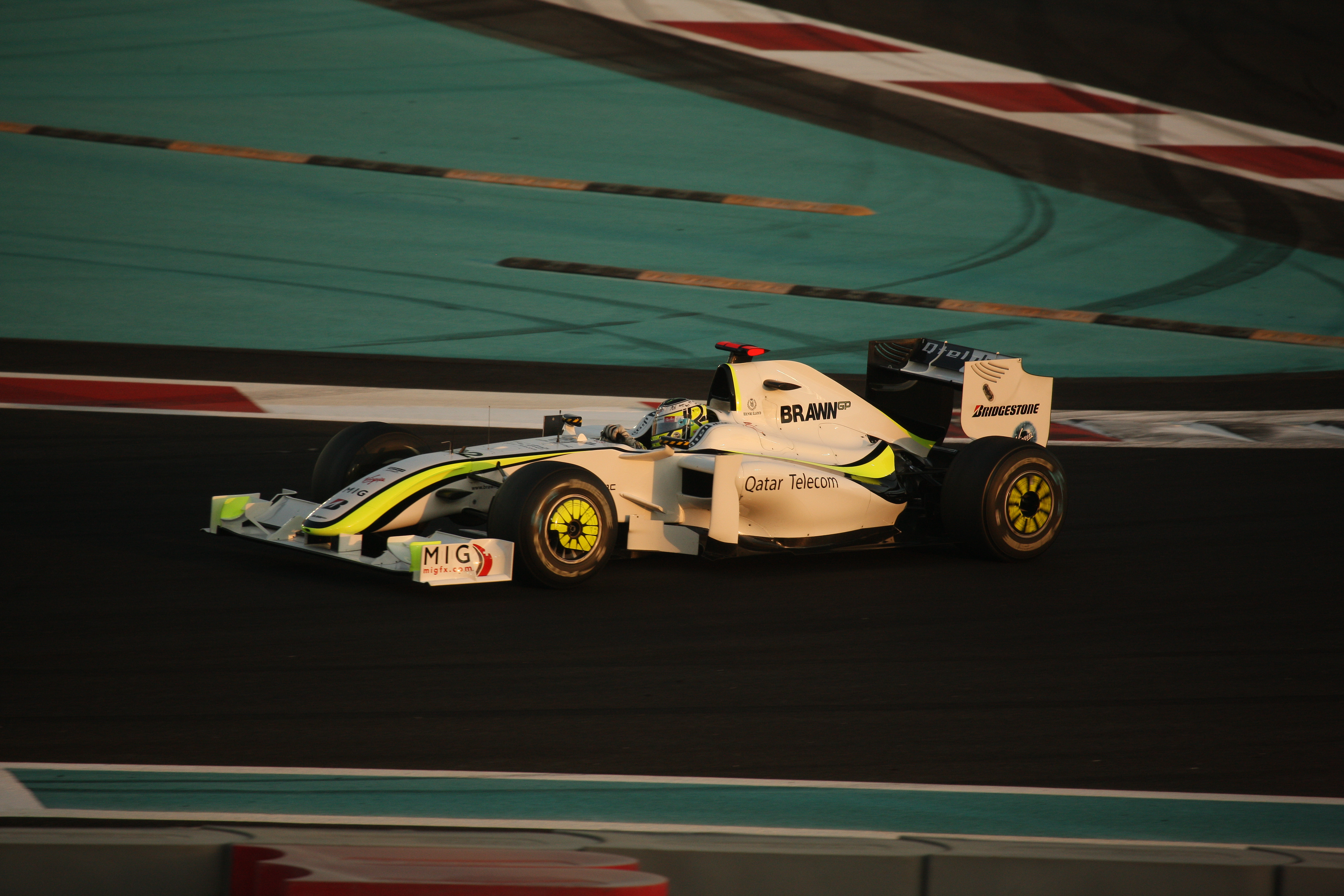 Jenson Button Brawn BGP 001 on Saturday at 2009 Abu Dhabi Grand Prix